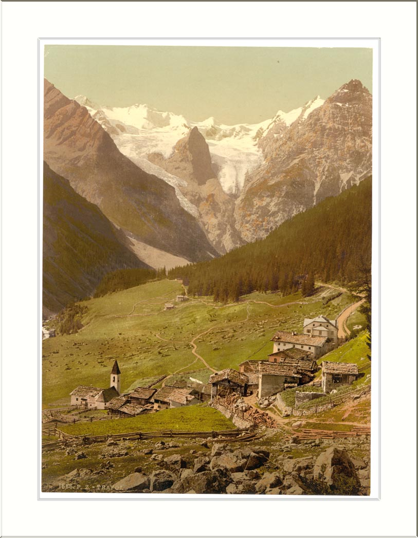 Trafoi and Trafoi Ice Wall Tyrol Austro-Hungary